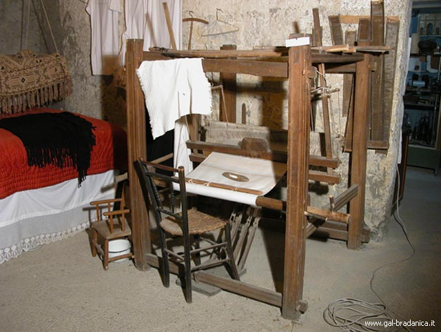 The museum